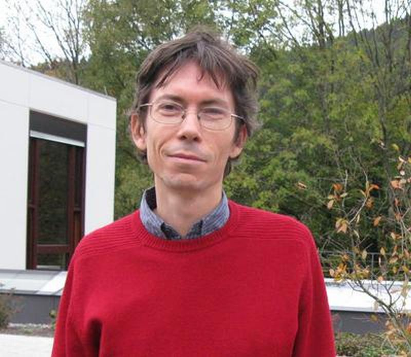 Stéphane Nonnenmacher, Oberwolfach 2011